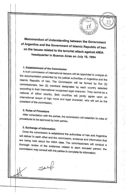 Memorandum of understanding between the Government of Argentina and the Government of Islamic Republic of Iran on the issues related to the terrorist attack against AMIA headquarter in Buenos Aires on July 18, 1994